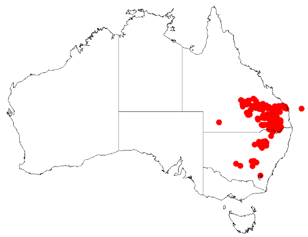 Acacia caroleae Occurrence data from Australasia Virtual Herbarium downloaded from on 8 December 2018